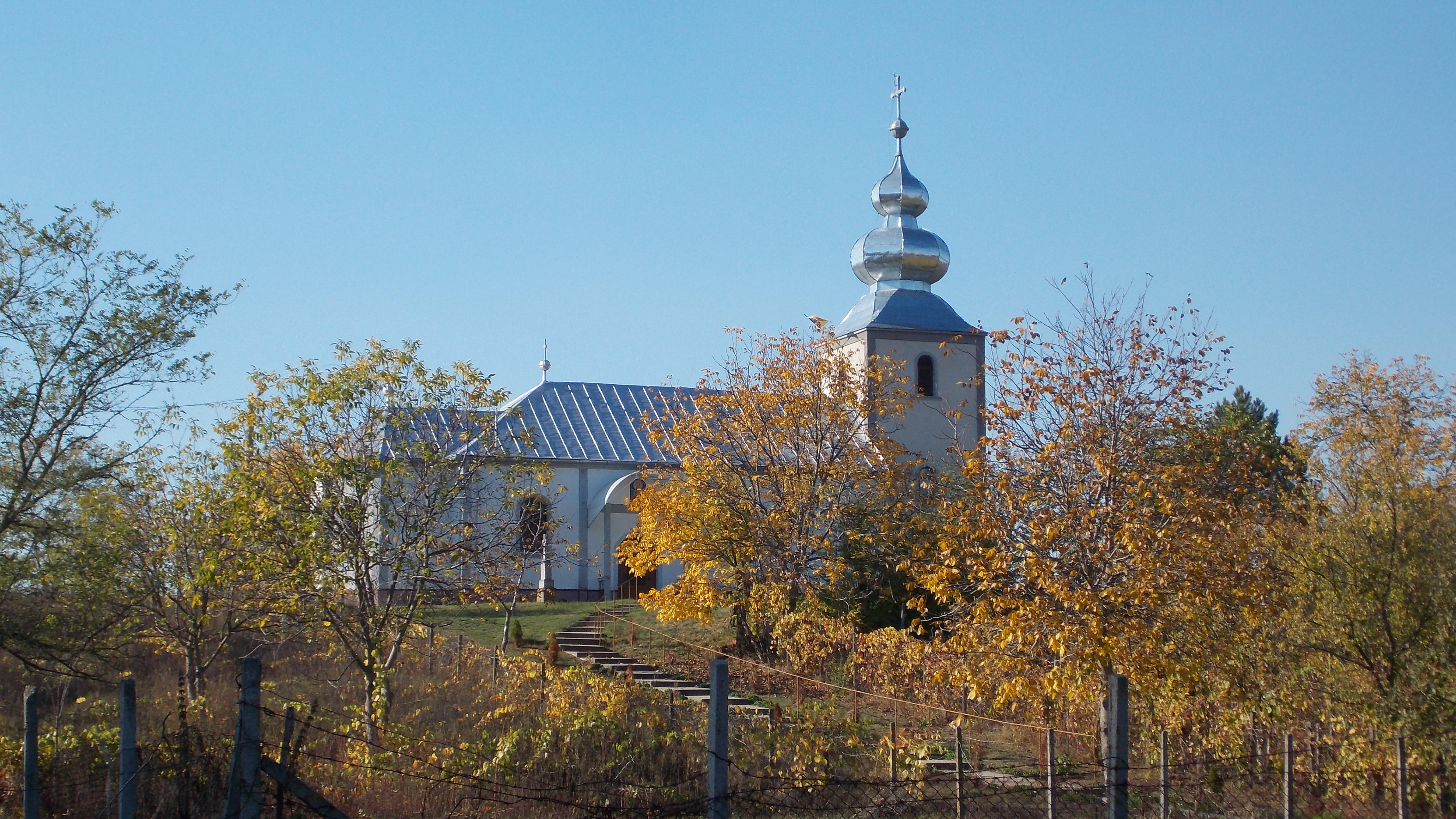 Romanian Orthodox Church in Horea, Satu-Mare county, RomaniaRomână: Biserica Ortodoxă, Horea, jud. Satu Mare